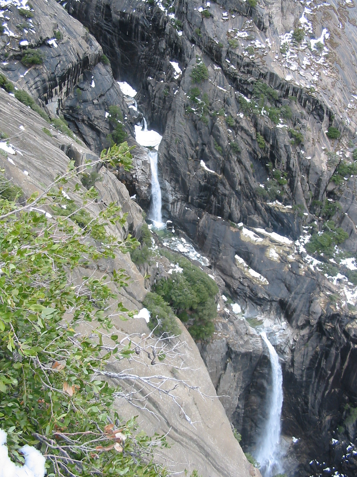 Picture of Yosemite Falls